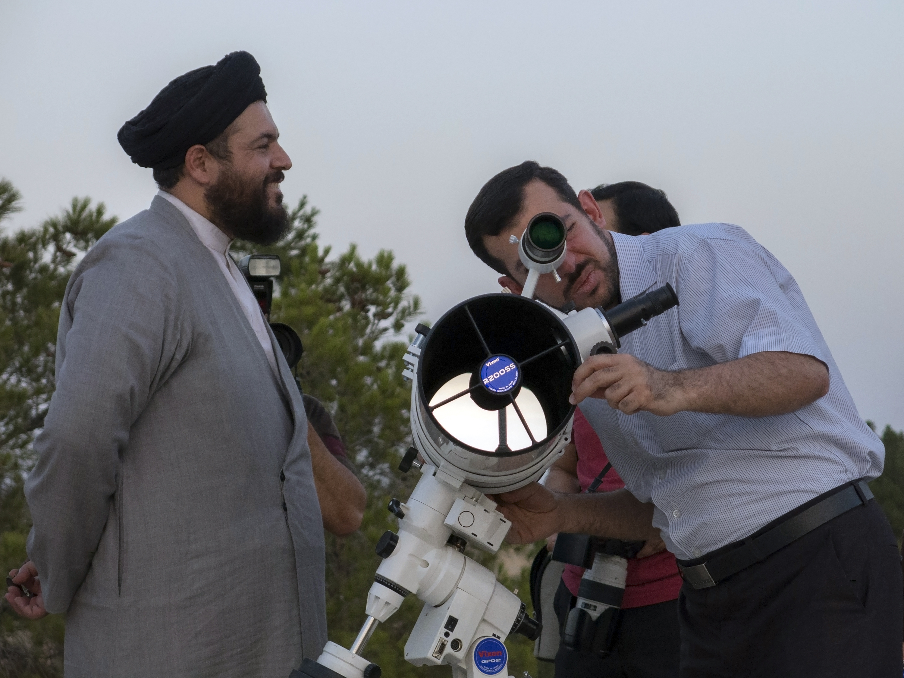 Astronomy (from Greek: ἀστρονομία) is a natural science that studies celestial objects and phenomena. It applies mathematics, physics, and chemistry, in an effort to explain the origin of those objects and phenomena and their evolution.